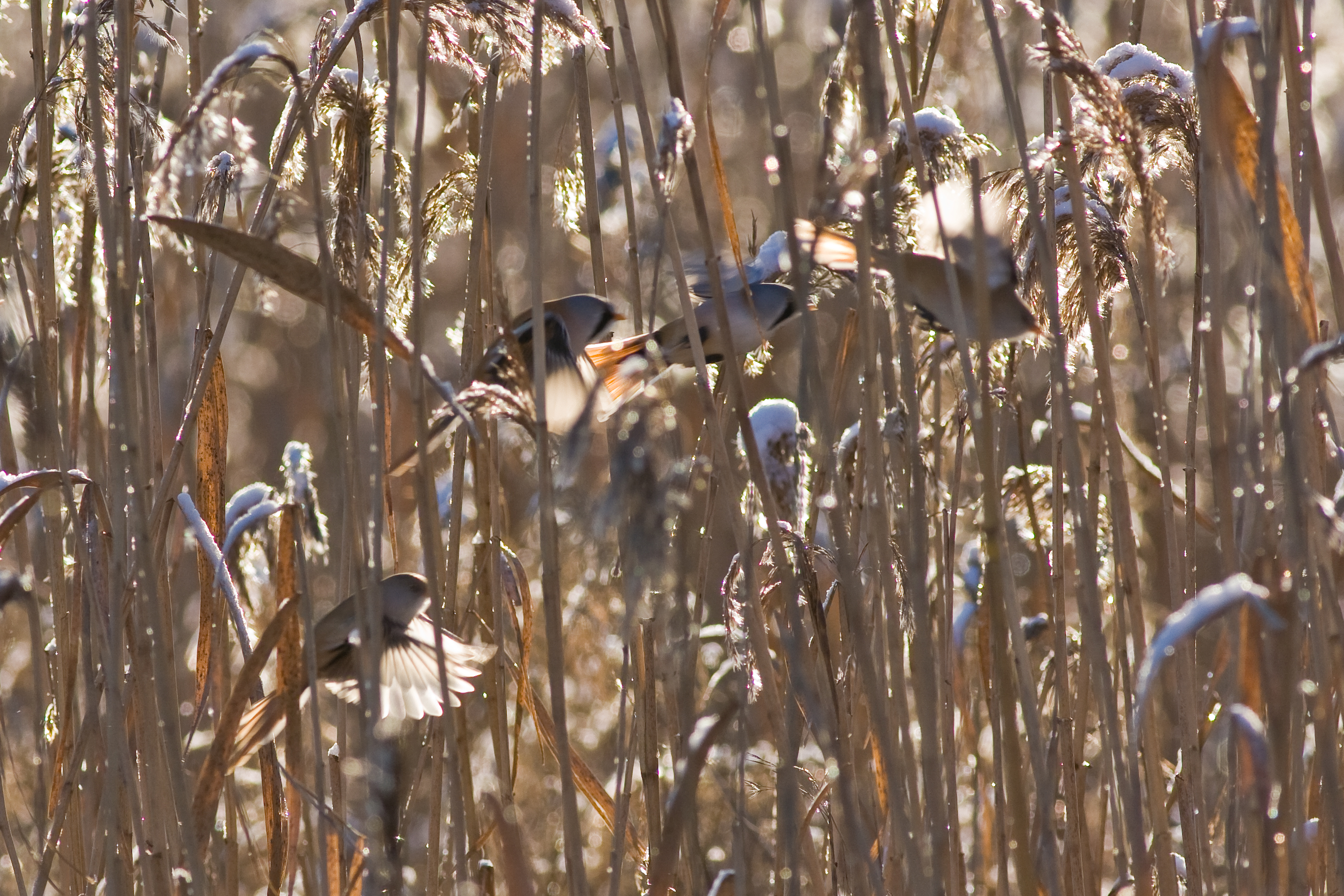 Flock of Panurus biarmicus (Bearded Reedling) flying in their natural habitat of dense wetland reed bed during winter. These birds are photographed at Vanhankaupunginlahti, Helsinki, Finland. The location is listed in Ramsar "List of Wetlands of International Importance".